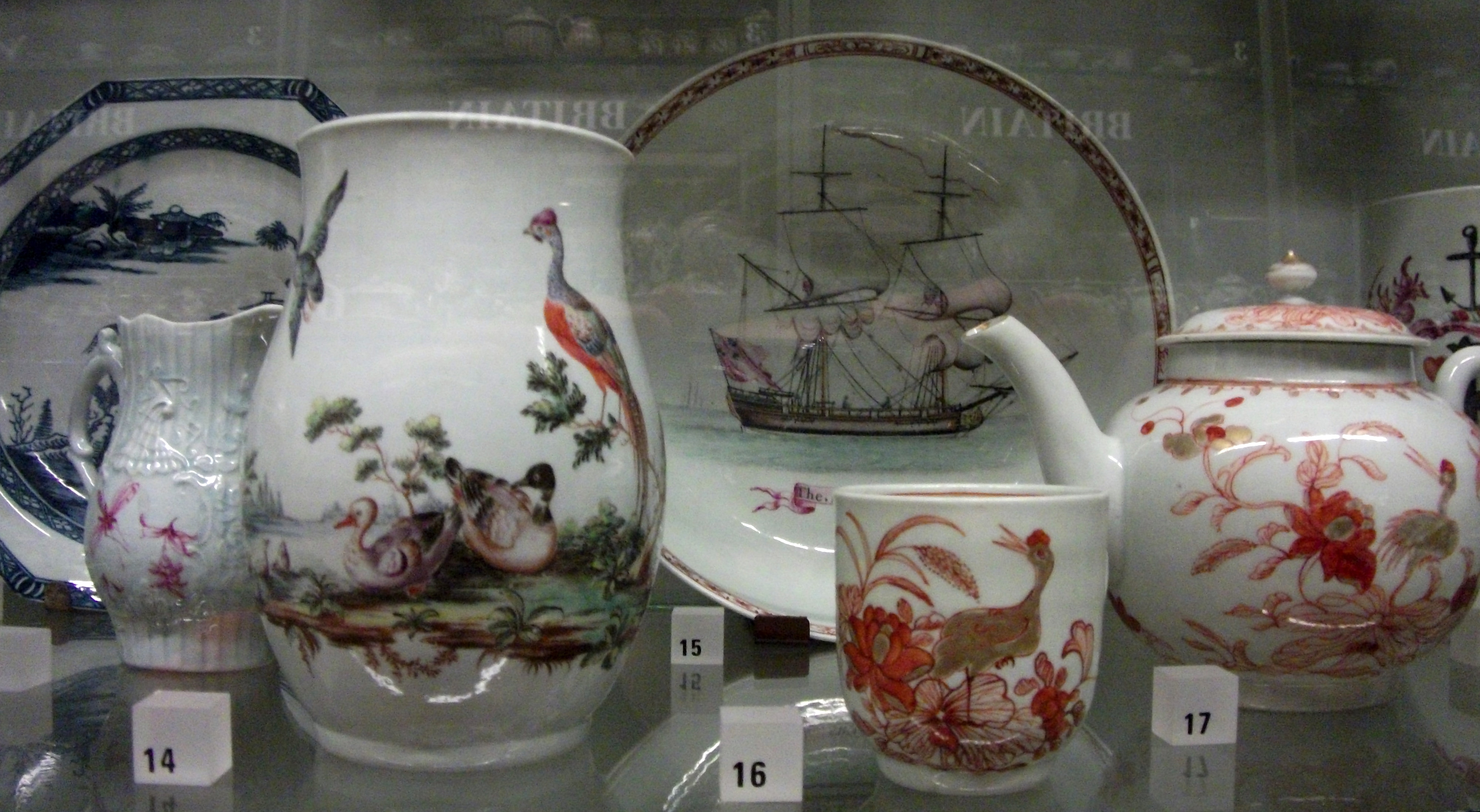 European ceramics, Victoria & Albert Museum